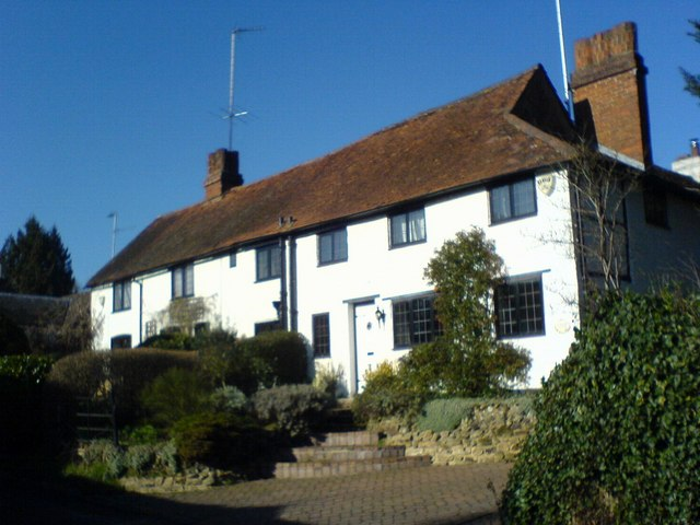 Burdens, Shere Upper Street